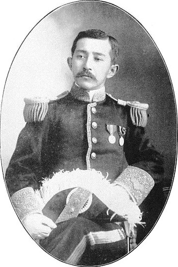 Yasuyoshi Matsui